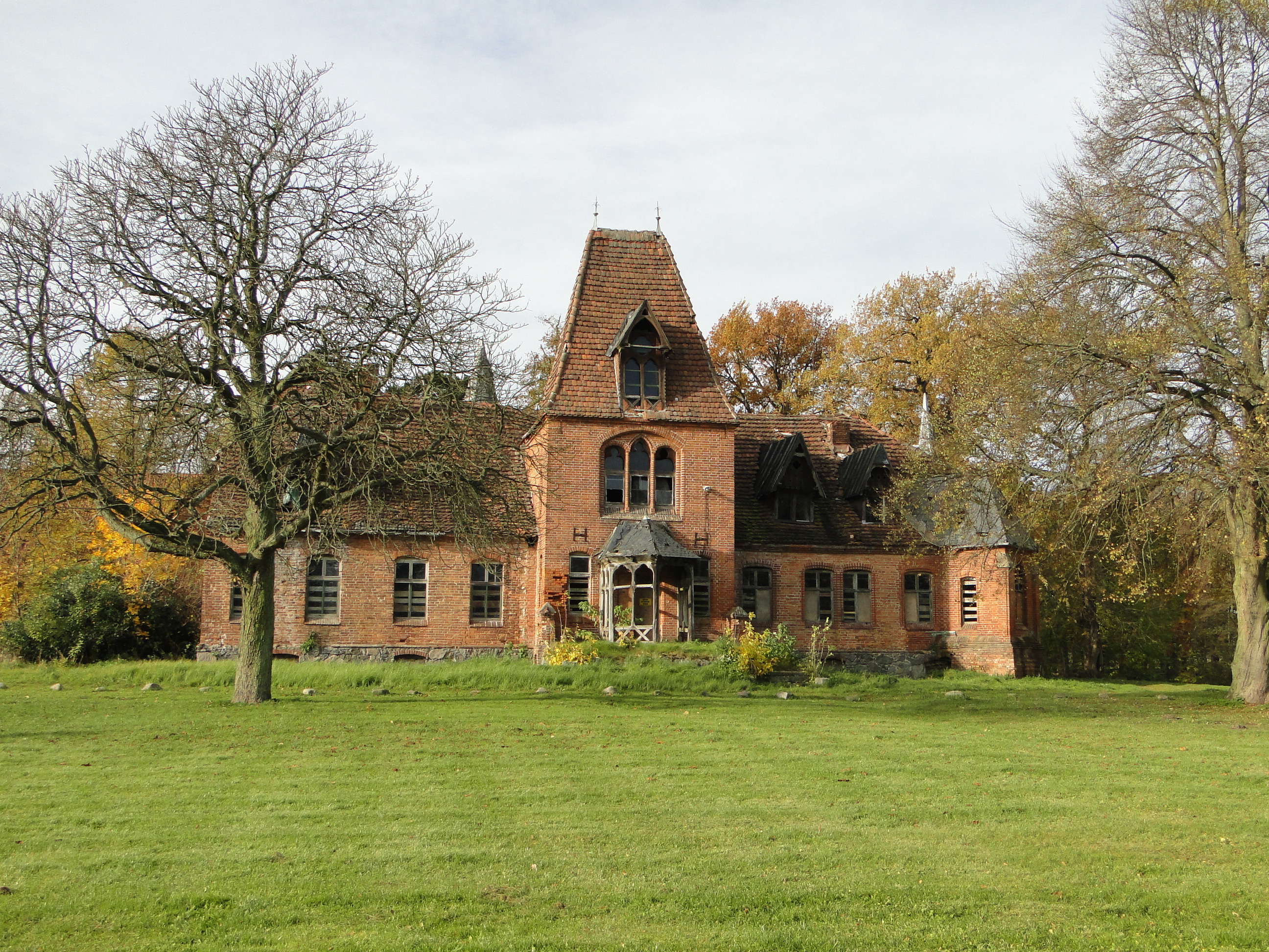 Manor in Pinnow, district Demmin, Mecklenburg-Vorpommern, Germany